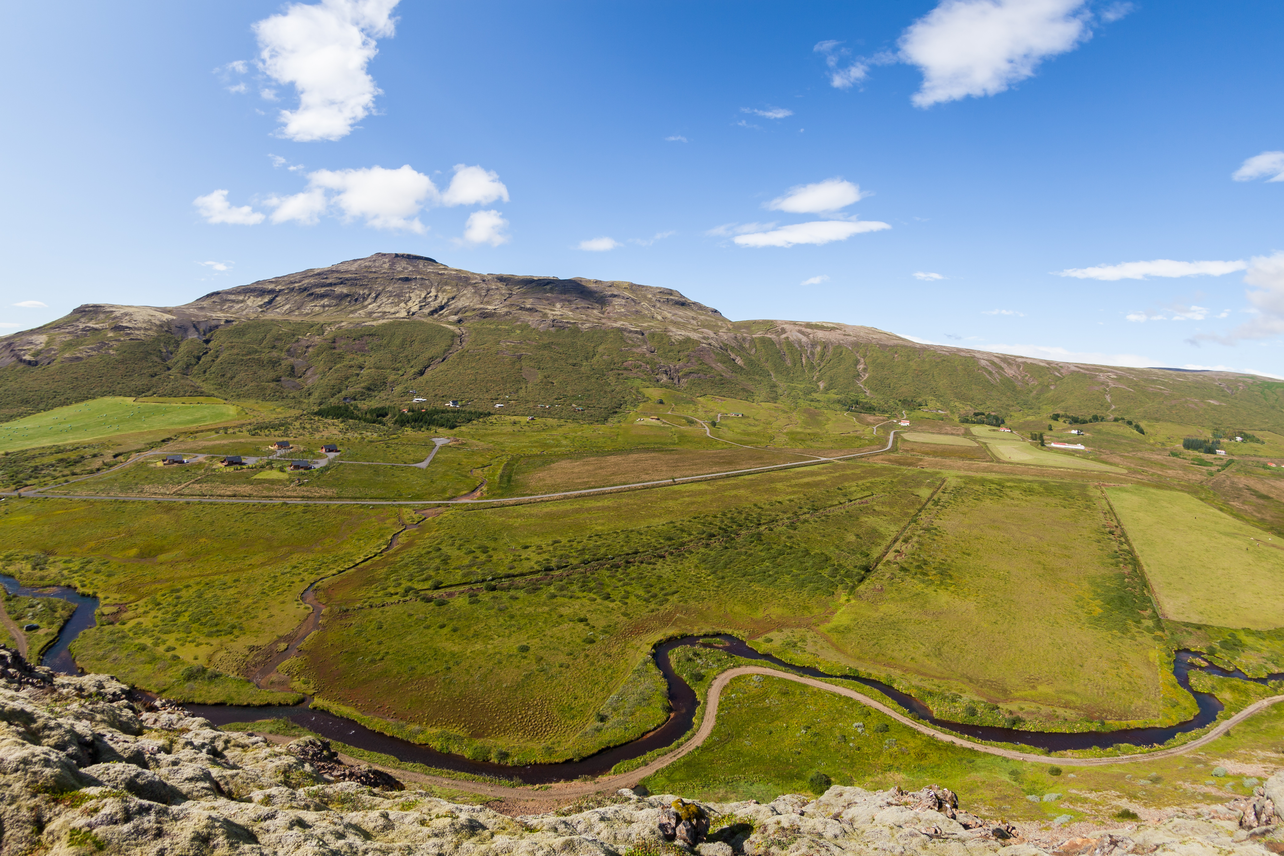 Haukadalur valley from Laugarfjall, Suðurland, Iceland